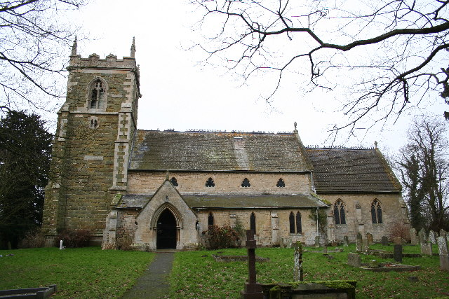 St.John the Baptist's church, Great Carlton, Lincs. A Perpendicular medieval tower, the rest a James Fowler rebuilding of 1860 incorporating medieval masonry